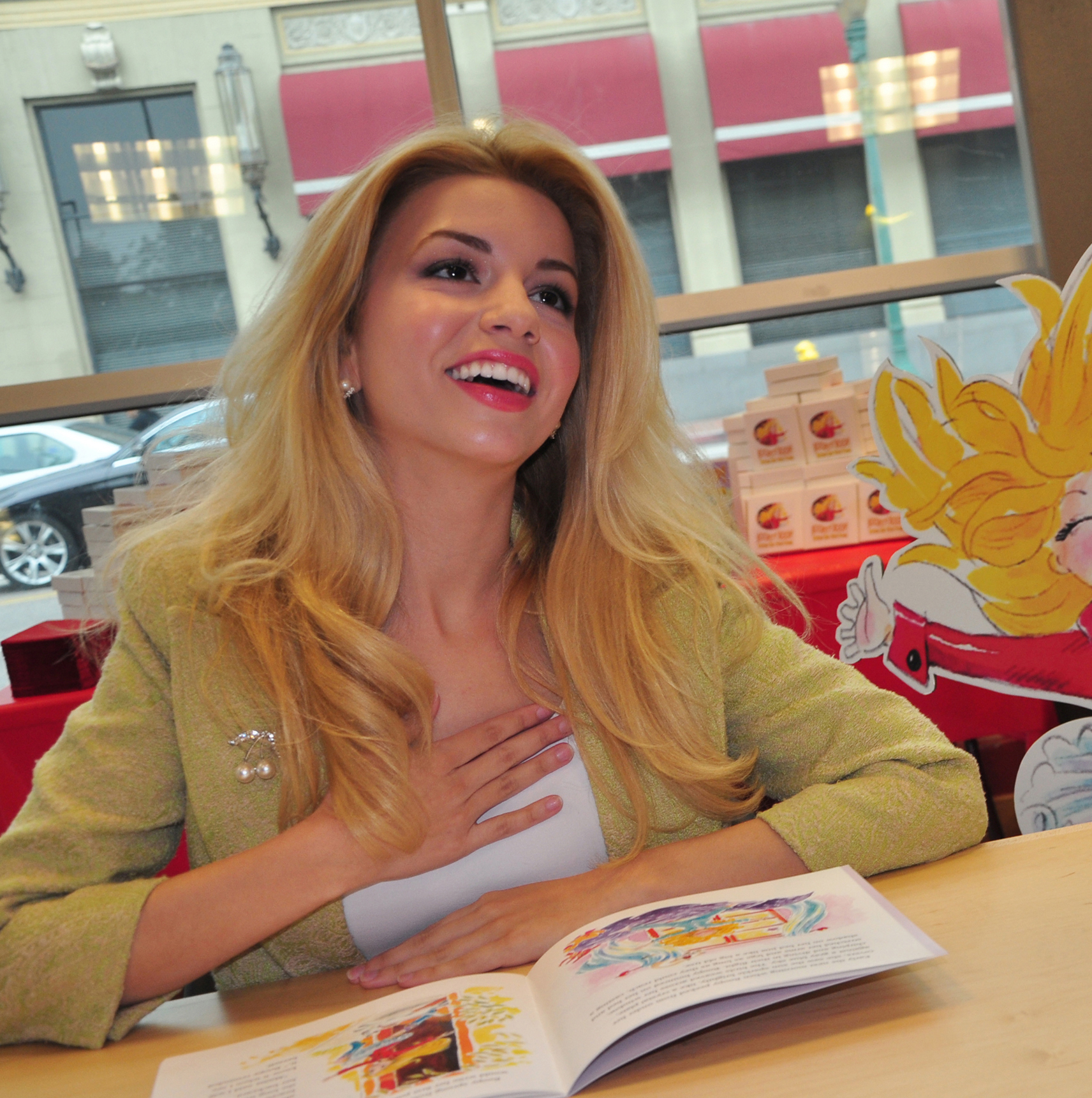 Masiela Lusha autographing her book